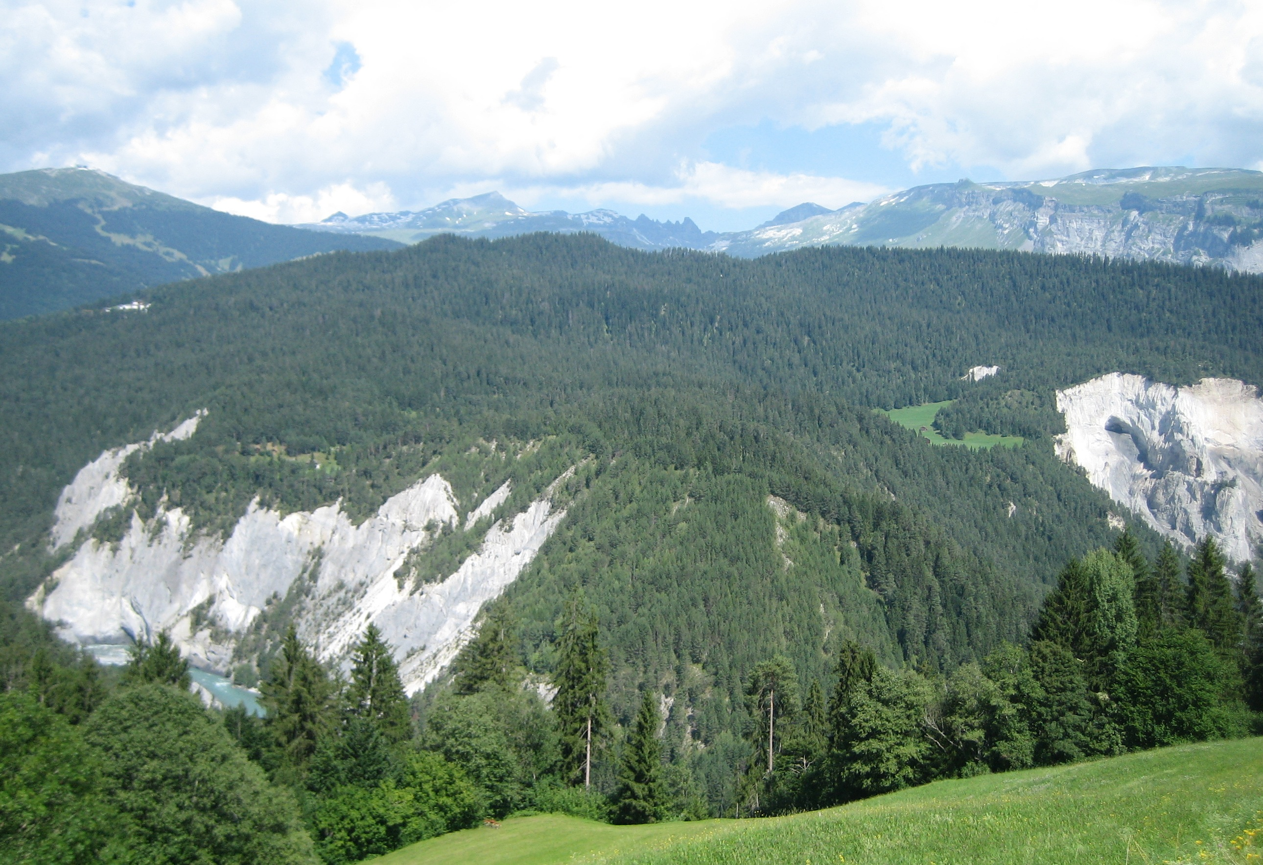 Debris area of Flims Rockslide under the Forest. In the distance on the right side you can see the tear-off edge of the rockslide